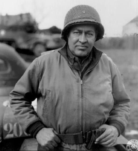 General George W. Reed, Jr. with the 6th Armored Division in World War II.